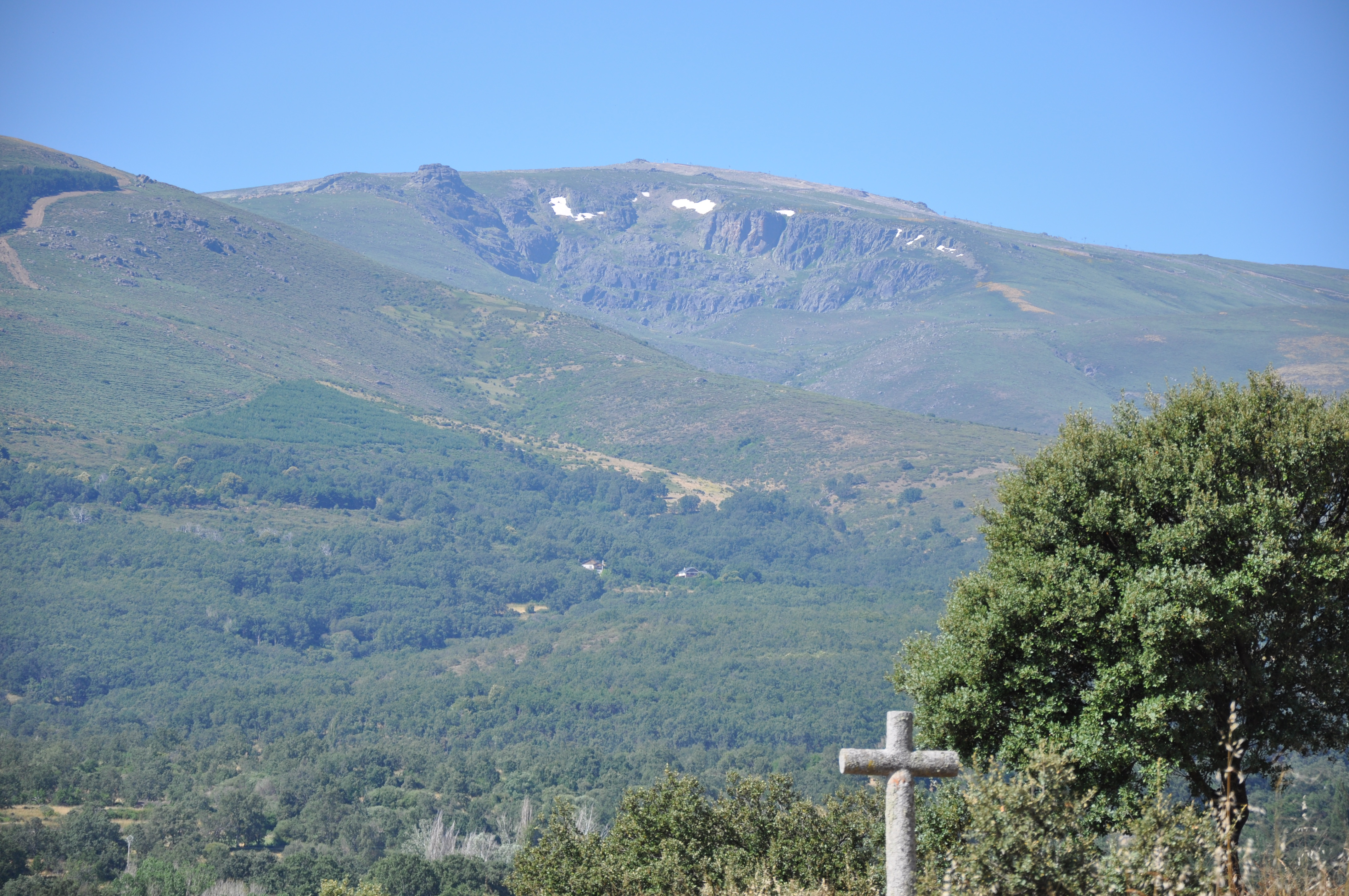 Peña Negra de Becedas from Gilbuena, Ávila, Spain